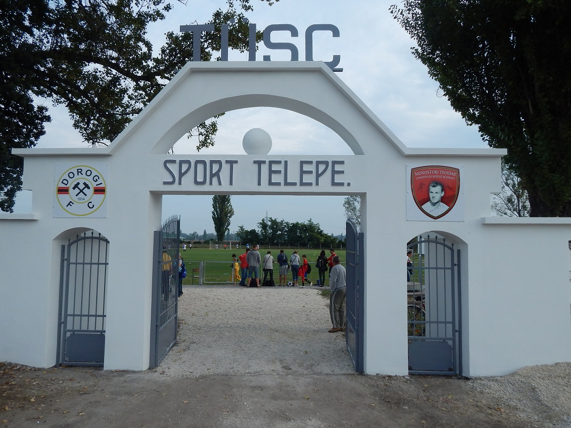 Main entrance of the Tivadar Monostri Foster Youth Center